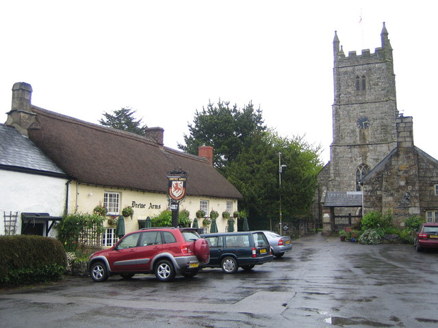 Drewsteignton This is the centre of Drewsteignton showing Holy Trinity Church and The Drewe Arms public house. The Drewe Arms was reputedly originally known as The Druid Arms but the name was changed in the 1920s when the Drewe family had nearby Castle Drogo built. The Drewe family persuaded the brewery that owned the pub to change the name, and offered to buy the sign with the family coat of arms which is visible on the inn sign today. The pub's website is here